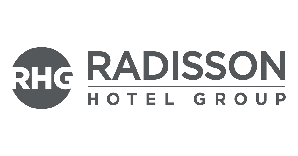 The logo of the Radisson Hotel Group